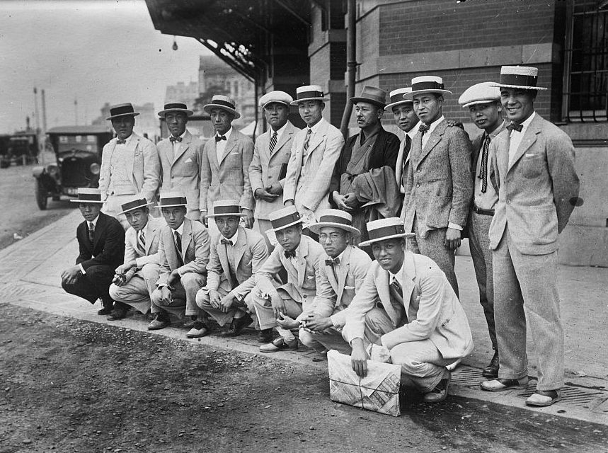 Ball team, Meiji University, Tokyo, Japan.